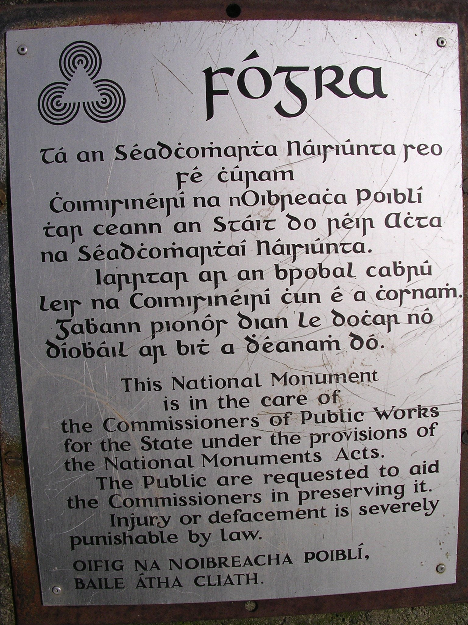 Sign written in Irish (using Gaelic type) and English